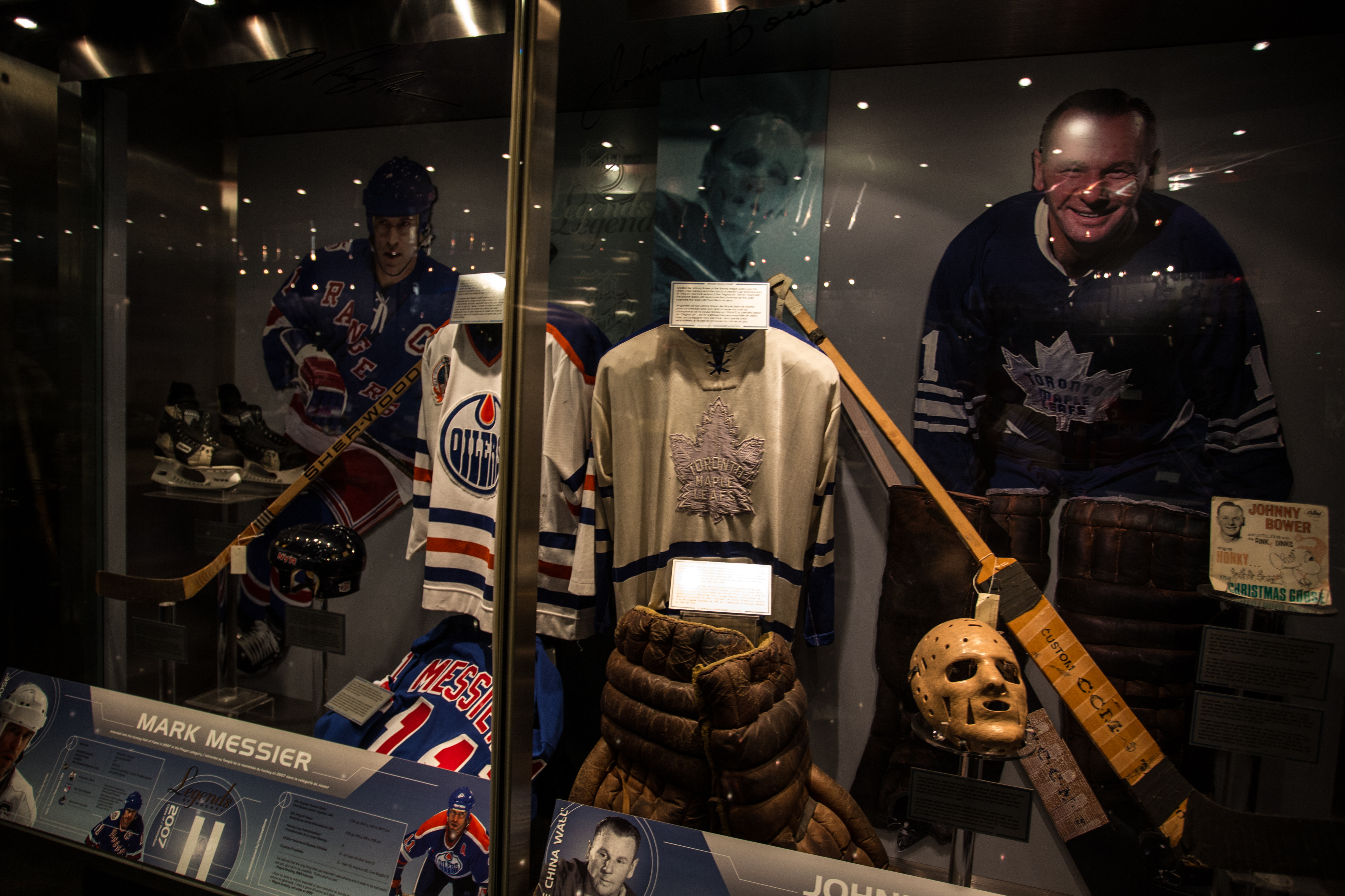 Exhibits for Johnny Bower and Mark Messier at the Hockey Hall of Fame